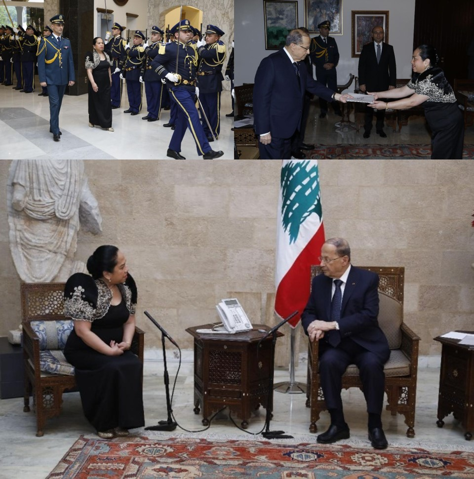 Top left: Ambassador Bernardita Catalla during the ceremonial walk in Baabda Palace, for the presentation of credentials to Lebanese President Michel Aoun. Top right: Ambassador Catalla presents her credentials to Lebanese President Michel Aoun. Bottom: Ambassador Catalla (left) and President Aoun (right) discuss Philippines-Lebanon ties after the Ambassador’s presentation of credentials.